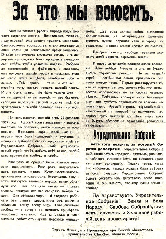 What we are fighting for. Propaganda message of Government of North-West Region of Russia to the people.